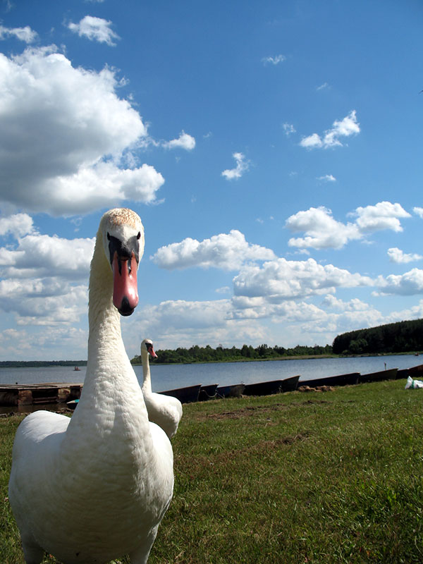 Swans on the beach beside the Dryviaty tourist centre near Braslaŭ, Belarus.